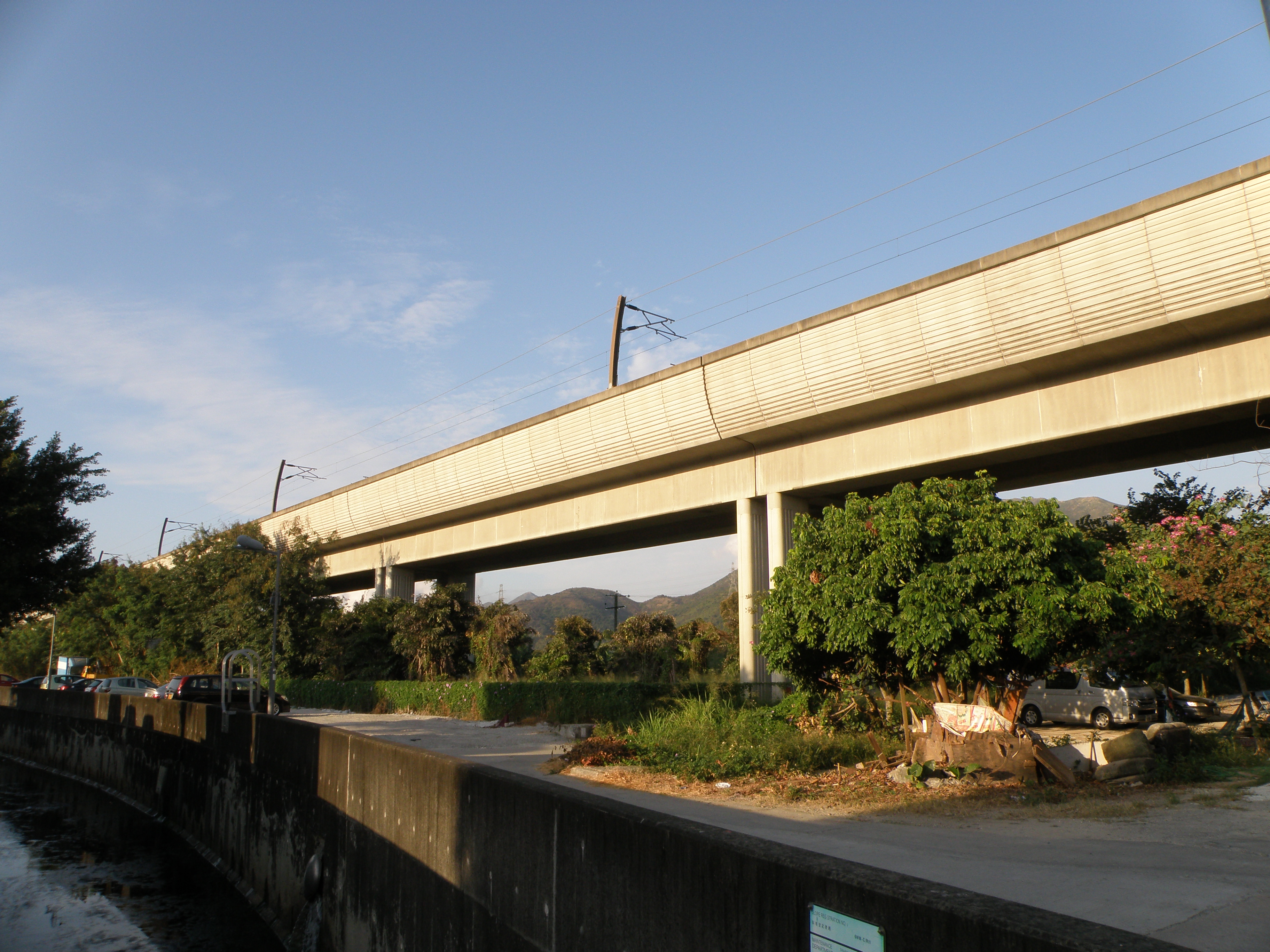 Tuen Ma Line Station in Hung Shui Kiu, Hong Kong.